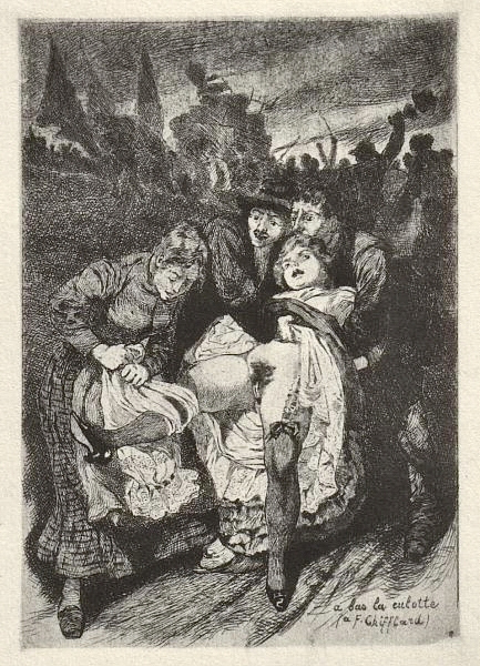 pants down